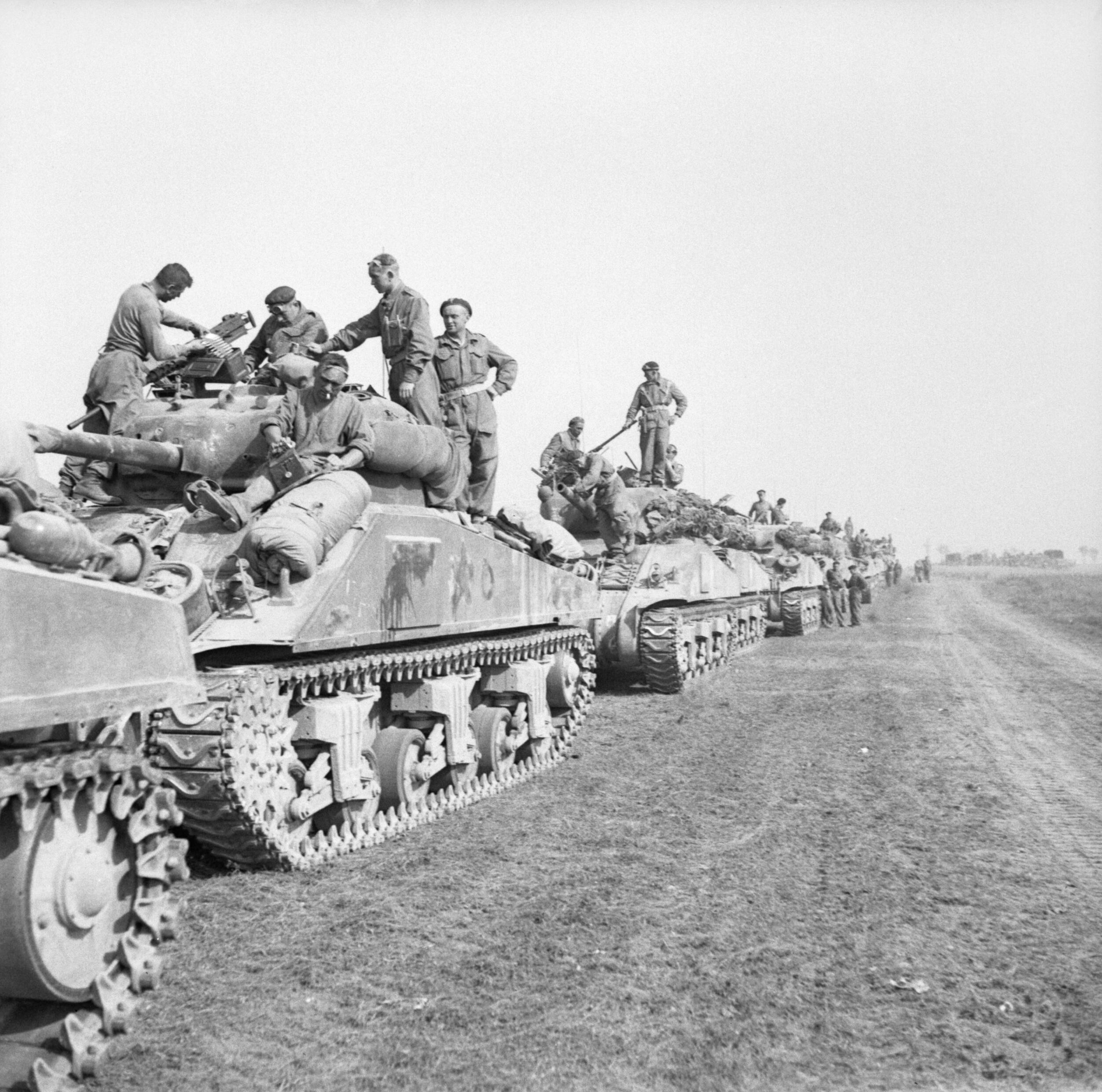 Sherman tanks of 1st Polish Armoured Division assembled for Operation 'Totalise', Normandy, 8 August 1944. Sherman tanks of the 1st Polish Armoured Division assembled for Operation 'Totalise', 8 August 1944.